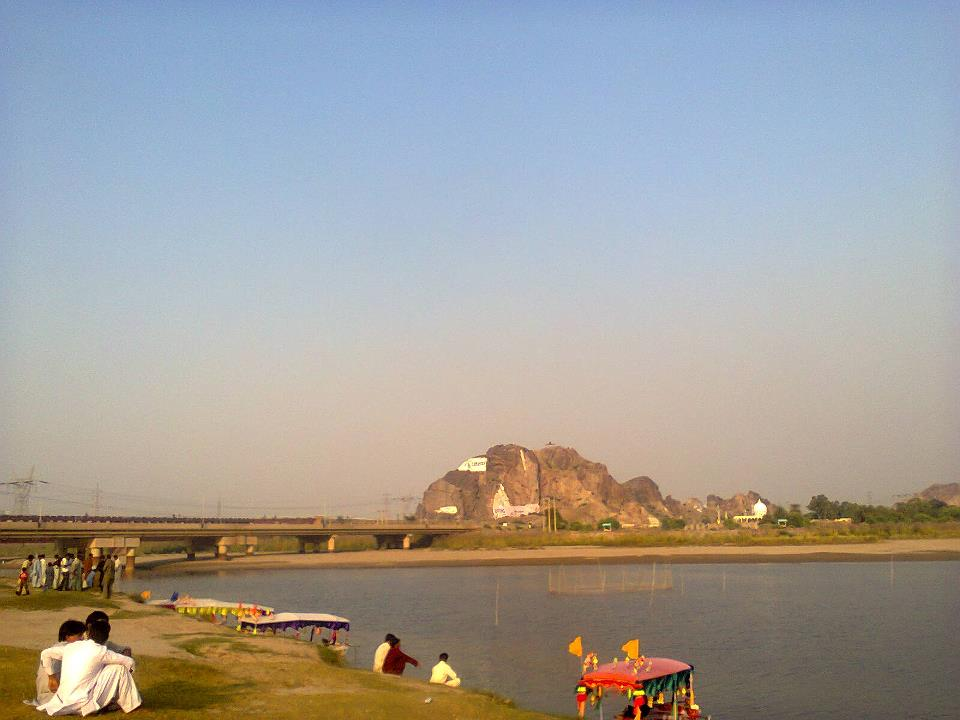 These photos were taken by me, when i was celebrating Eid.